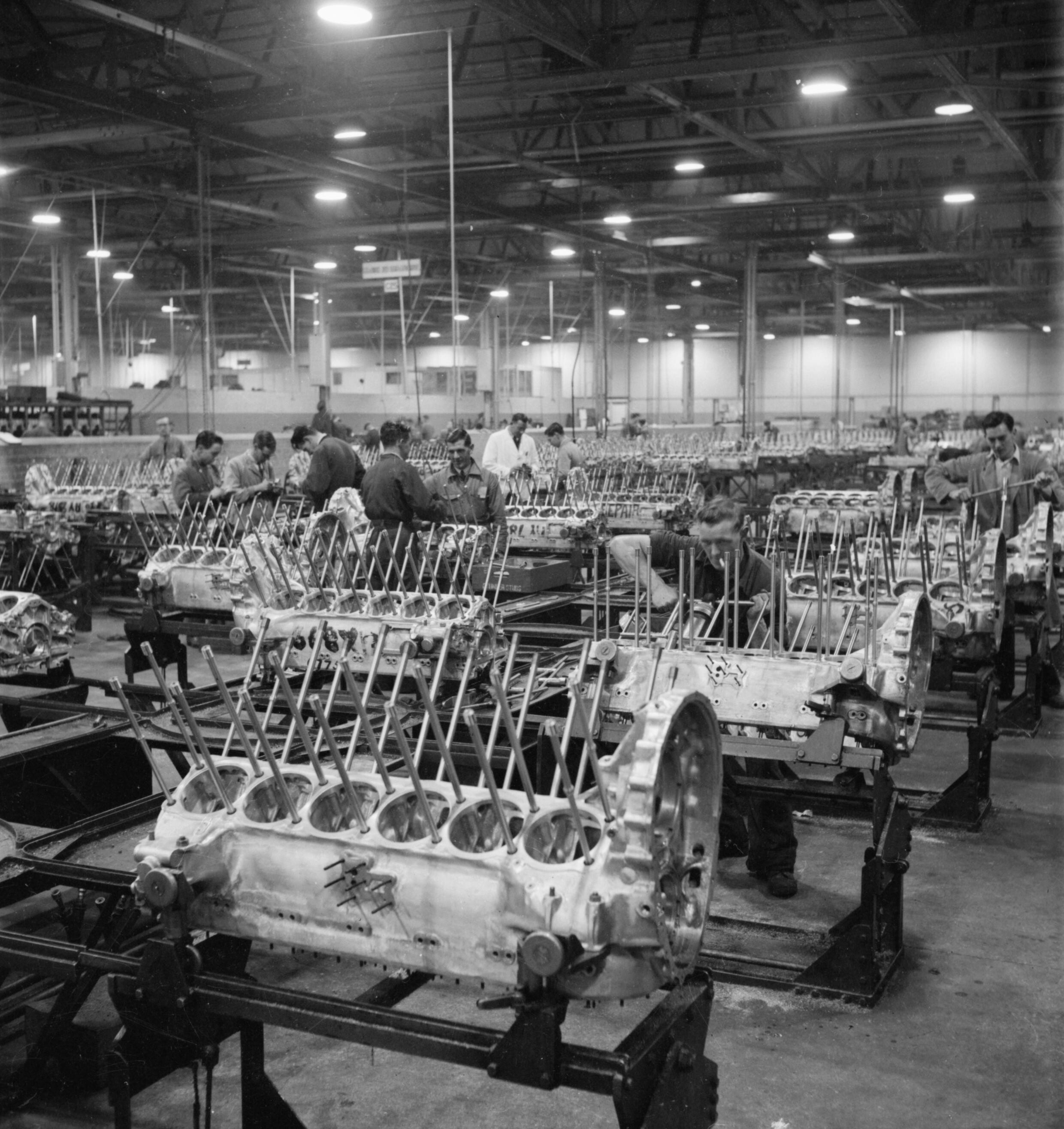 A Merlin Is Made- the Production of Merlin Engines at a Rolls Royce Factory, 1942 A wide view of the Crank Case assembly bay at this aircraft engine factory, somewhere in Britain. In the foreground, the cylinder studs are being fitted. These will hold the cylinder in place.